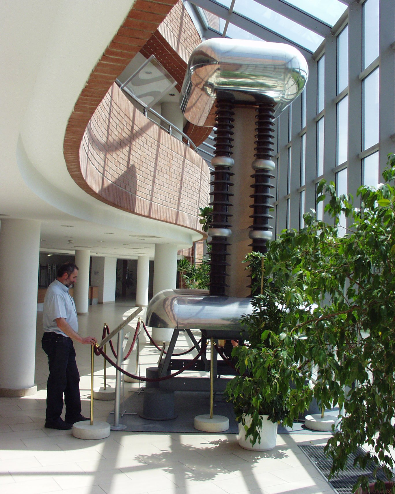 Van de Graaff generator of the first Hungarian linear particle accelerator. It achieved 700 kV in 1951 and 1000 kV in 1952. (Constructor: Simonyi Károly; Sopron, 1951.)